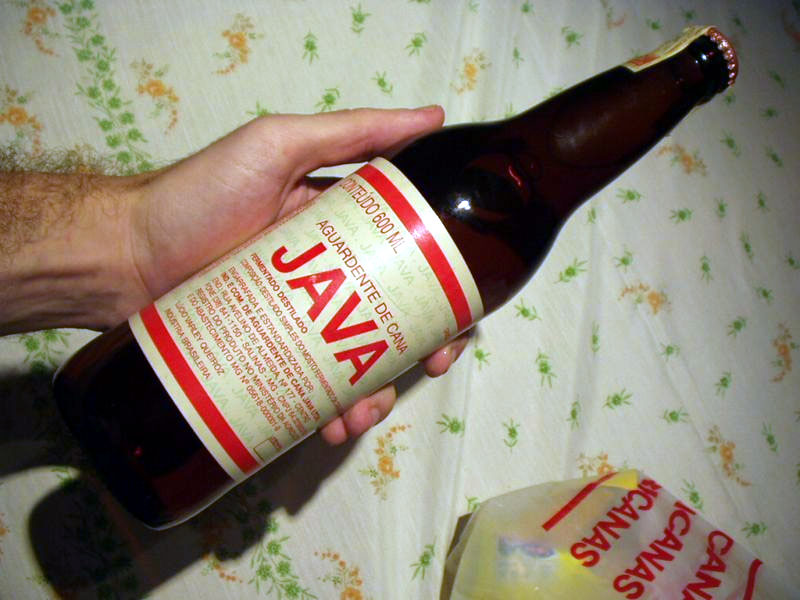 A bottle of Cachaça Java, from Brazil.